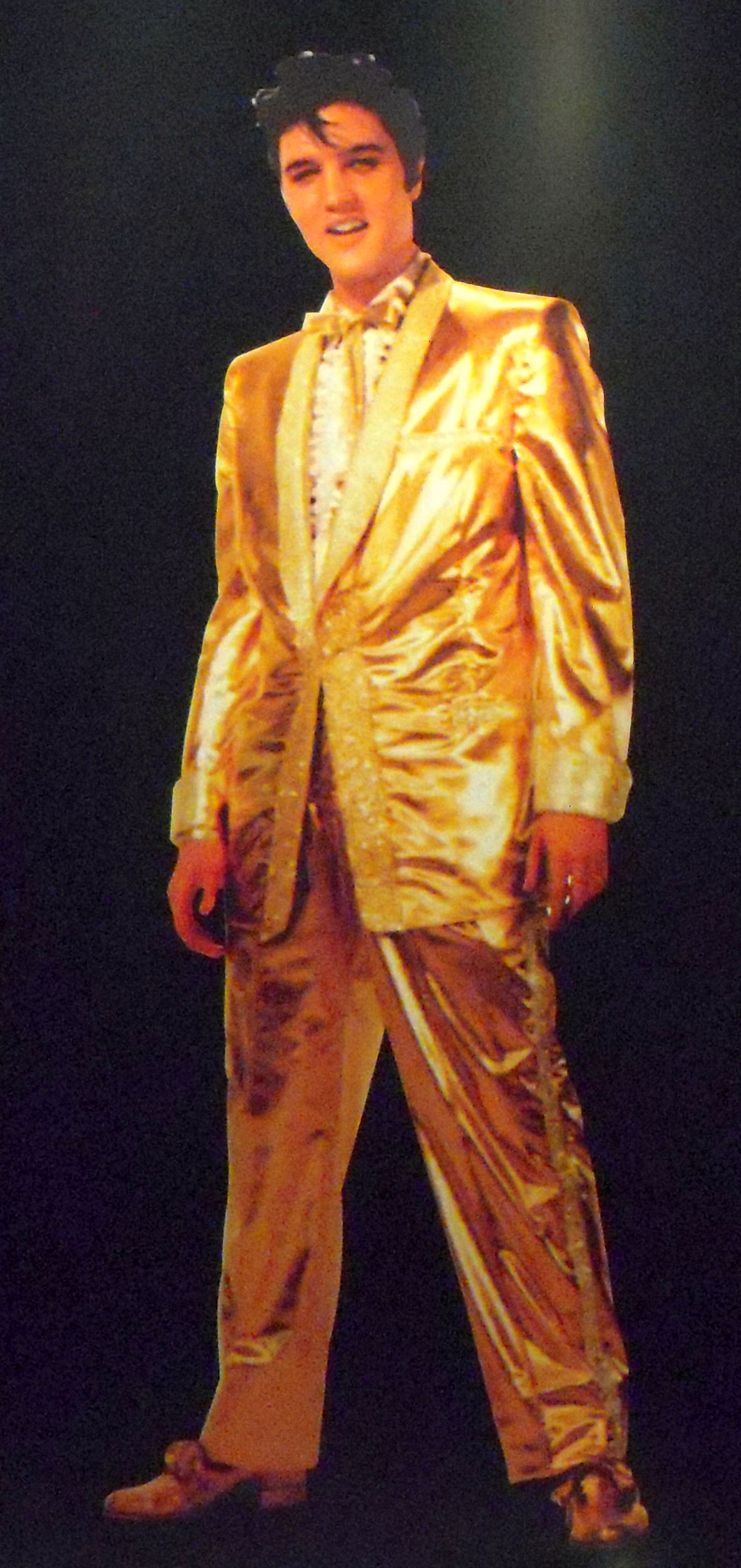 Graceland Randers is a Danish Elvis Presley museum, restaurant, shop etc. Picture of one of the posters.